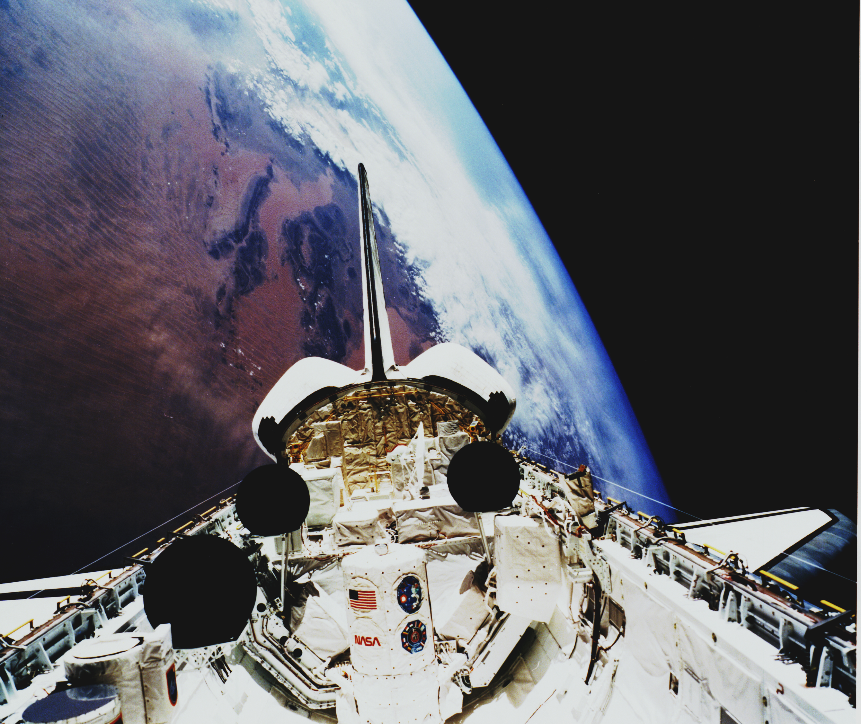 ATLAS pallets are backdropped against the Atlas Mountains (31.0N, 1.0W). ATLAS is an acronym for ATmospheric Laboratory for Applications and Science. Taken from a point over Mali, in the western Sahara, the northwest looking view shows dunes in the Iguidi dune sea and colors characteristic of the Saharan side of the Atlas Mountains. The edge of a large sandstorm, that transported sand and dust to Yugoslavia and beyond, can also be seen.